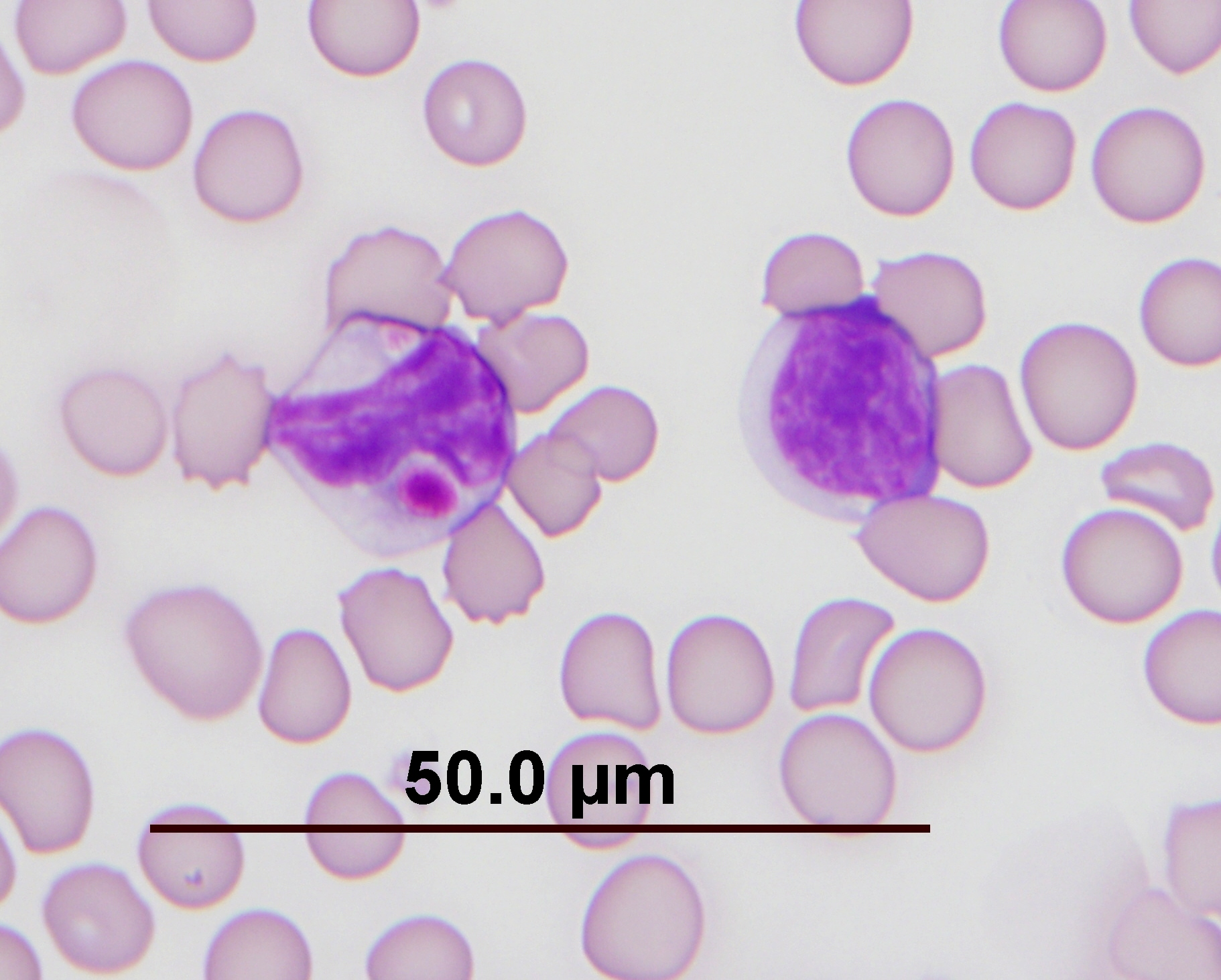 Cell on the left is a Kurloff cell, on the right there is a lymphocyte. Few erythrocytes are present in the background.